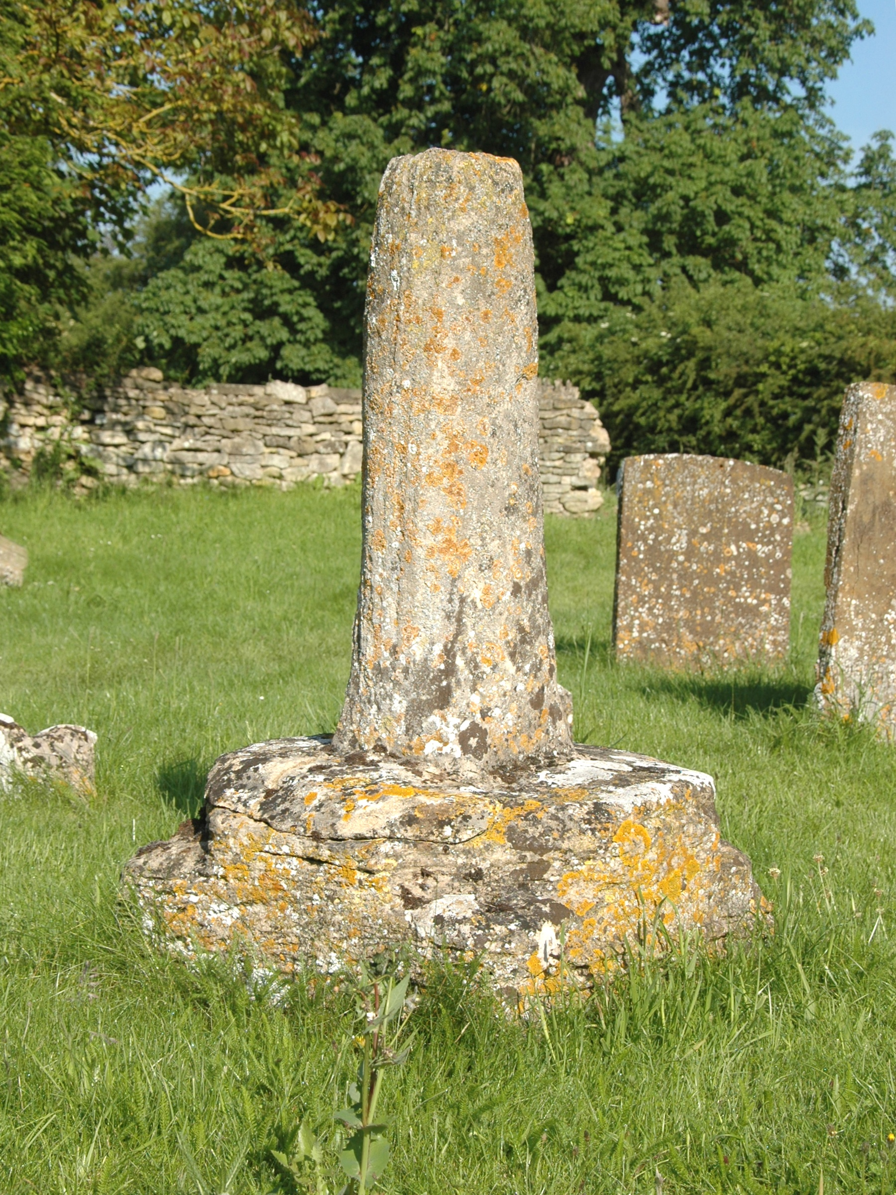 Base and broken shaft of Mediæval stone cross in St Michael's parish churchyard, Begbroke, Oxfordshire